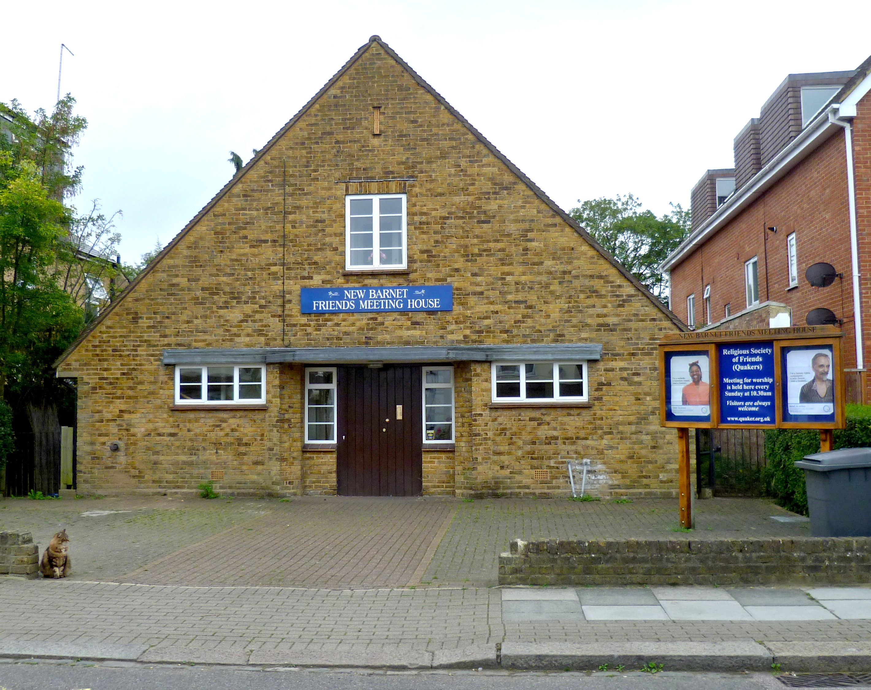 New Barnet